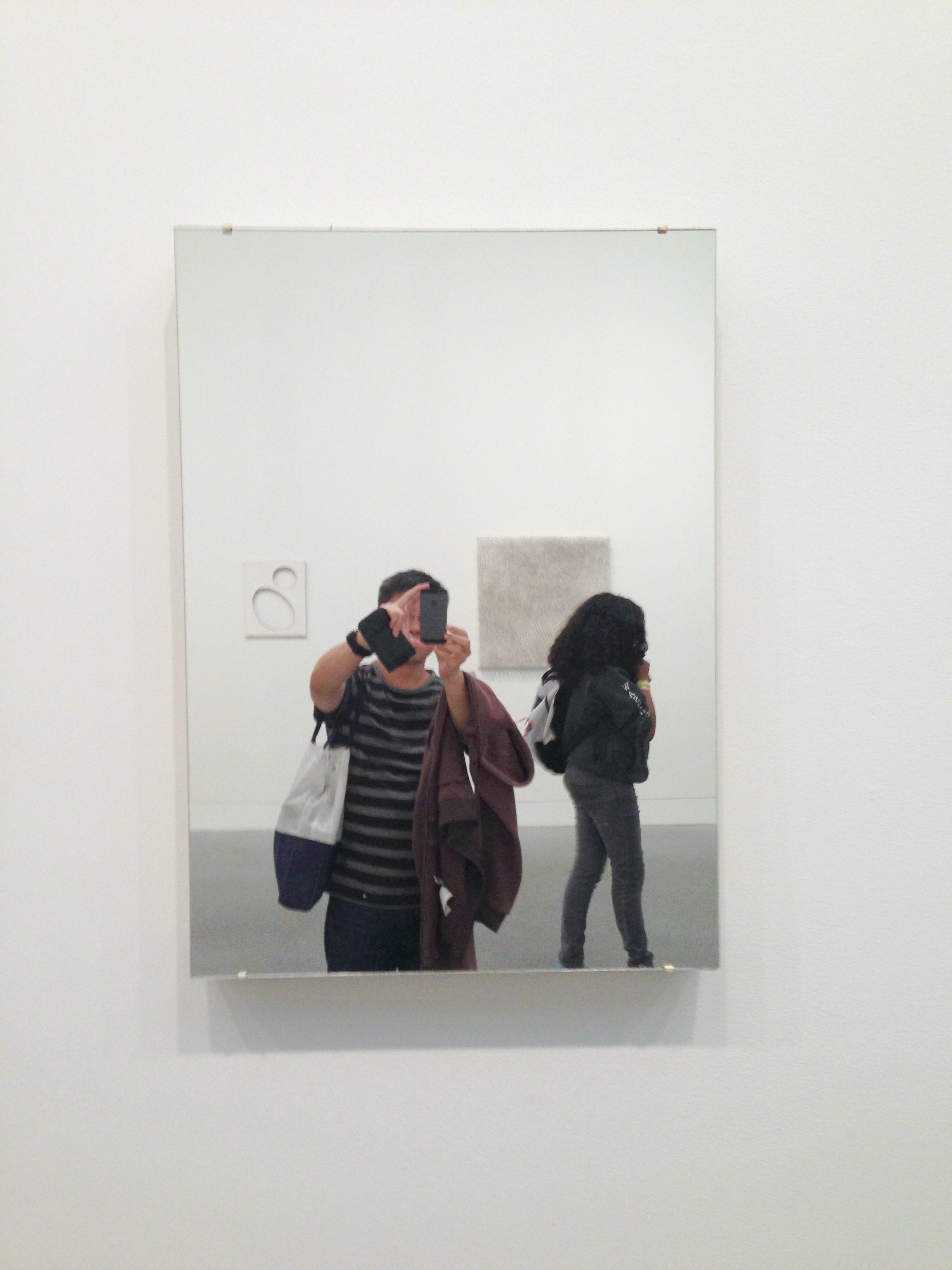 Says the curator of the artwork, which consists of a mirror mounted on canvas: "Rather than look at an image of the artist's making, viewers are now confronted by themselves, thereby questioning a long-held notion of painting transcending reality."